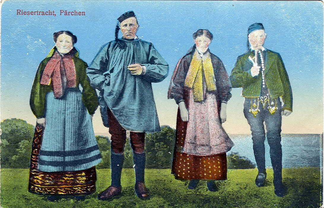 Postcard, dated 1.4.1918. Title: "Popular costumes of the Ries. Two couples"